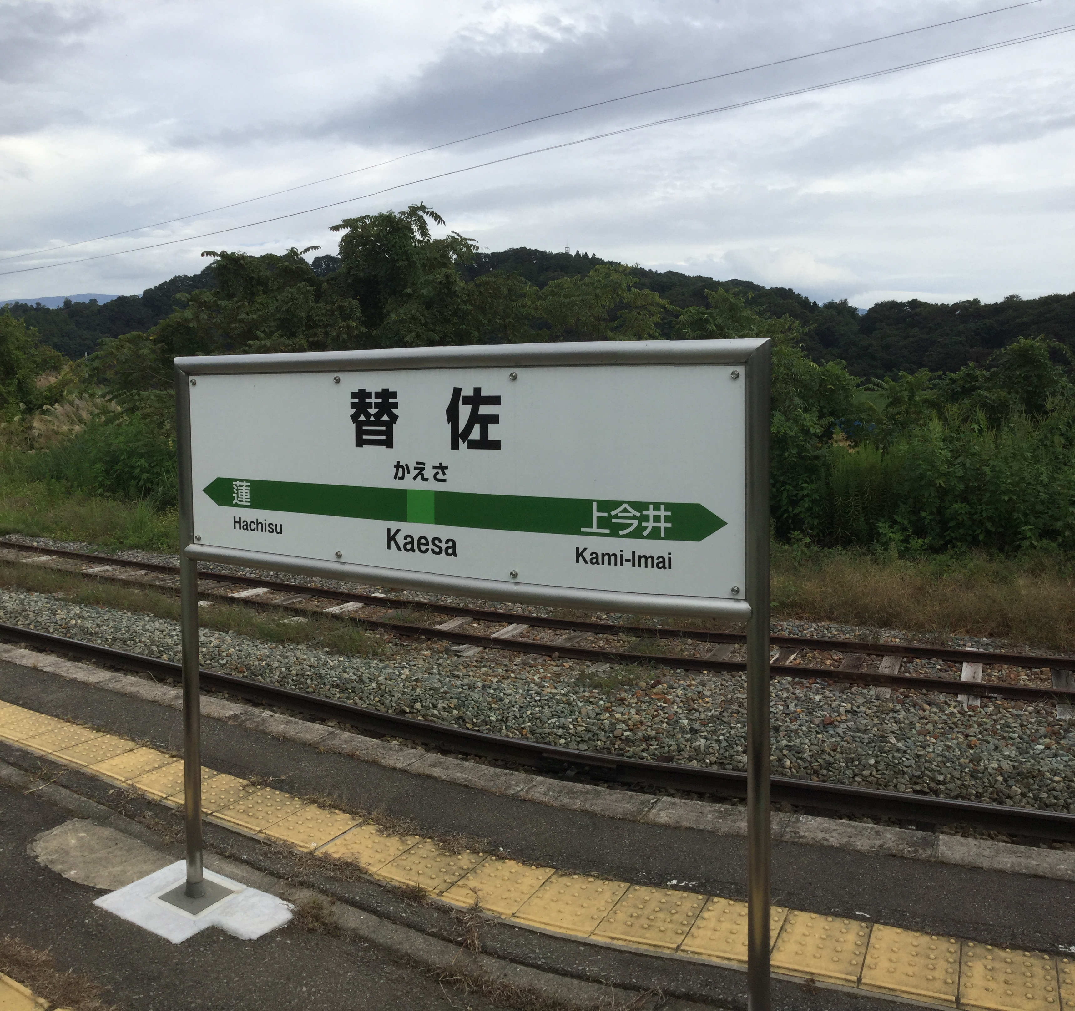 替佐駅のホーム (Kaesa Station platform)